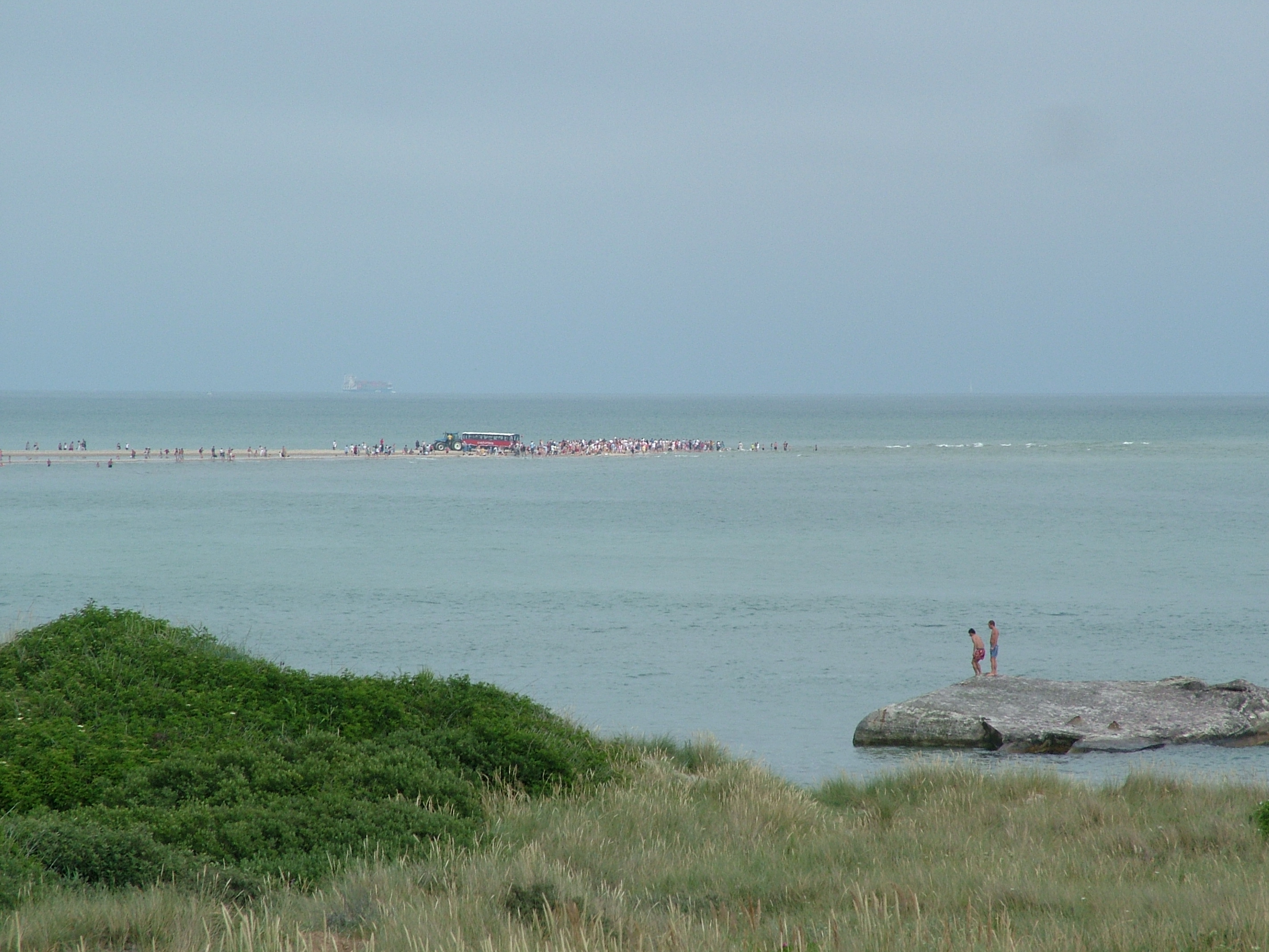 Grenen - the sandbar in the northmost area of Denmark Photographed by: Per Palmkvist Knudsen